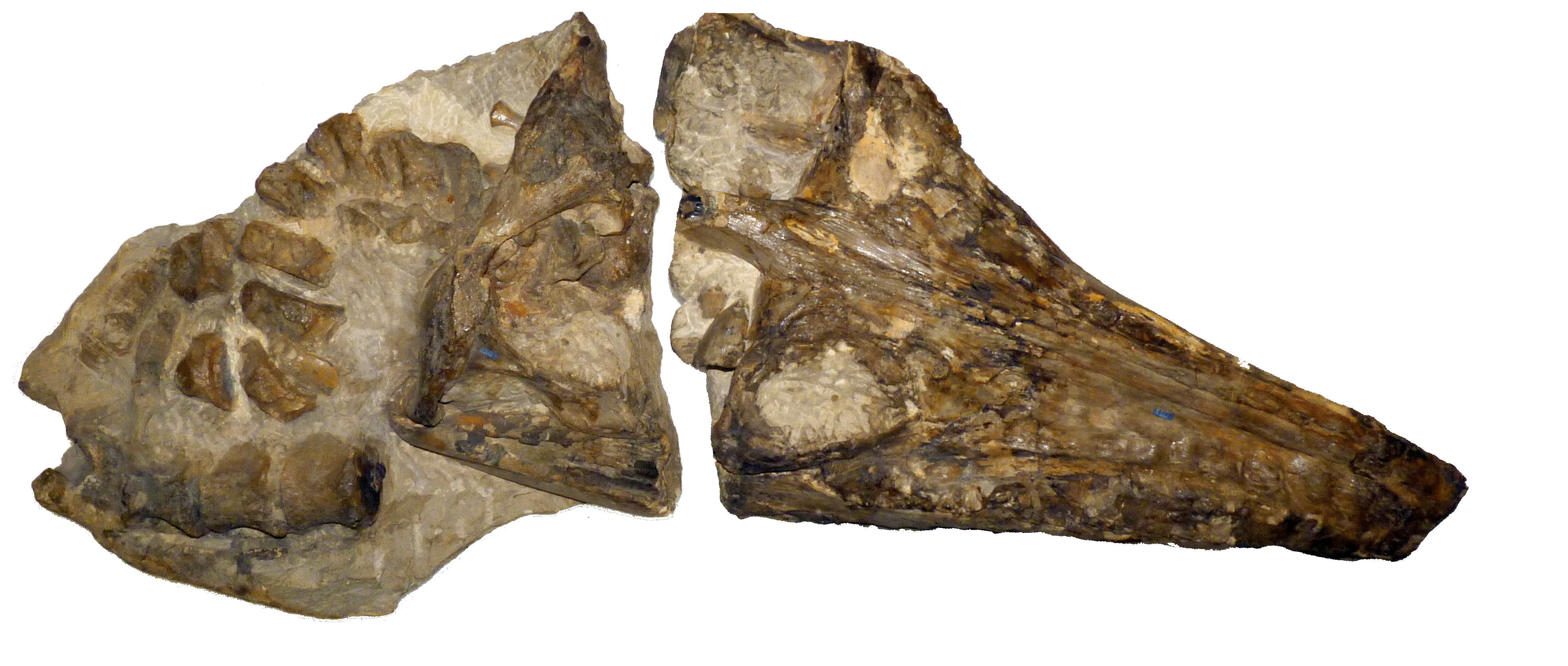 Fossil of Brachauchenius lucasi from the Eagle Ford Group in Texas. Adapted from public domain (CC0) photographs by the Smithsonian Institution (